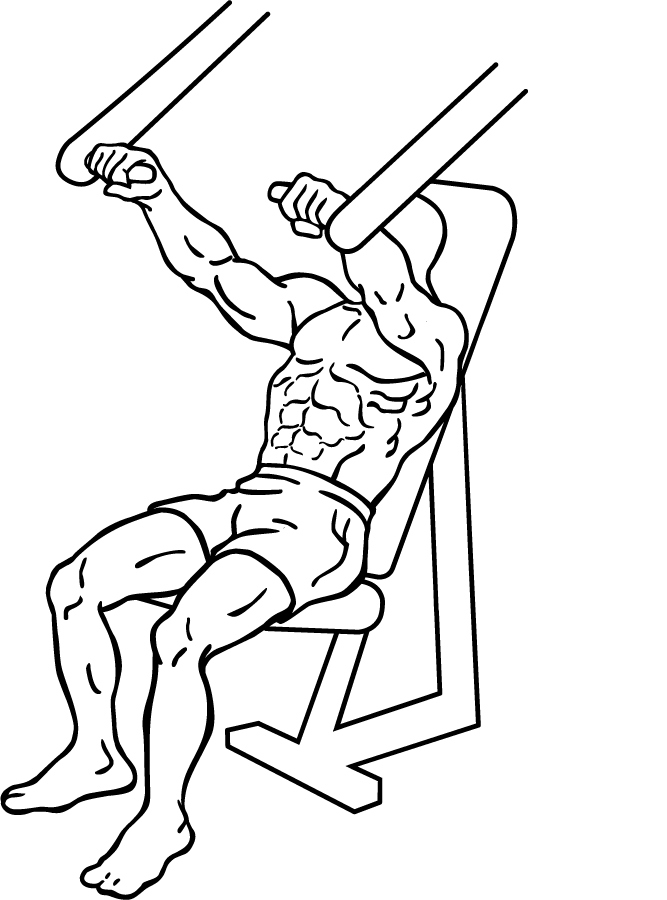 an exercise of chest